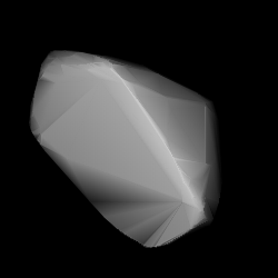 3D convex shape model of 3556 Lixiaohua, computed using light curve inversion techniques. J. Hanuš, J. Ďurech, M. Brož, B. D. Warner (June 2011). "A study of asteroid pole-latitude distribution based on an extended set of shape models derived by the lightcurve inversion method". Astronomy and Astrophysics 530: A134. ISSN 0004-6361. arXiv